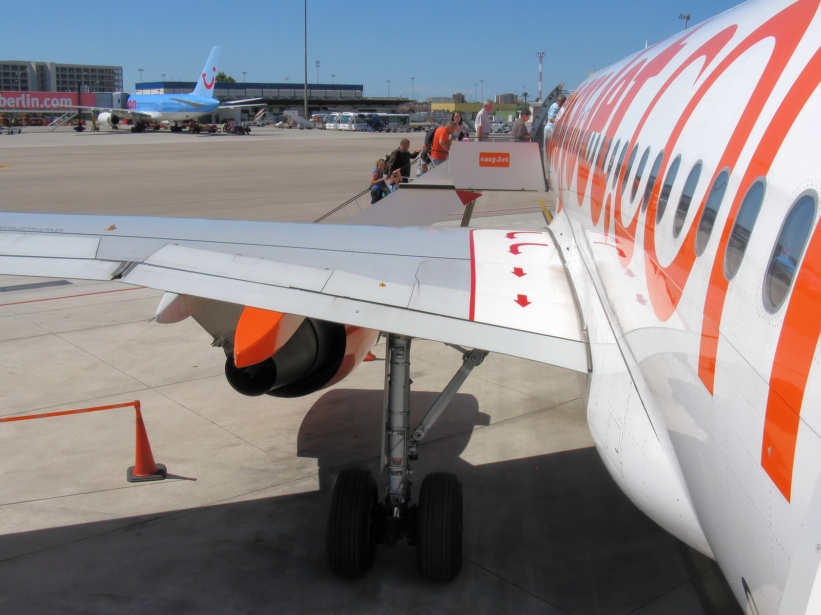 The preferred escape route off the wing, for passengers when they exit the overwing doors after an emergency, is marked by red arrows on a white background. The route has non-slip paint so is much safer to walk over than the rest of the wing. Easyjet Airbus A319-100 (G-EZAV) boarding for a flight to Bristol, England from Palma Airport, Majorca, Spain.